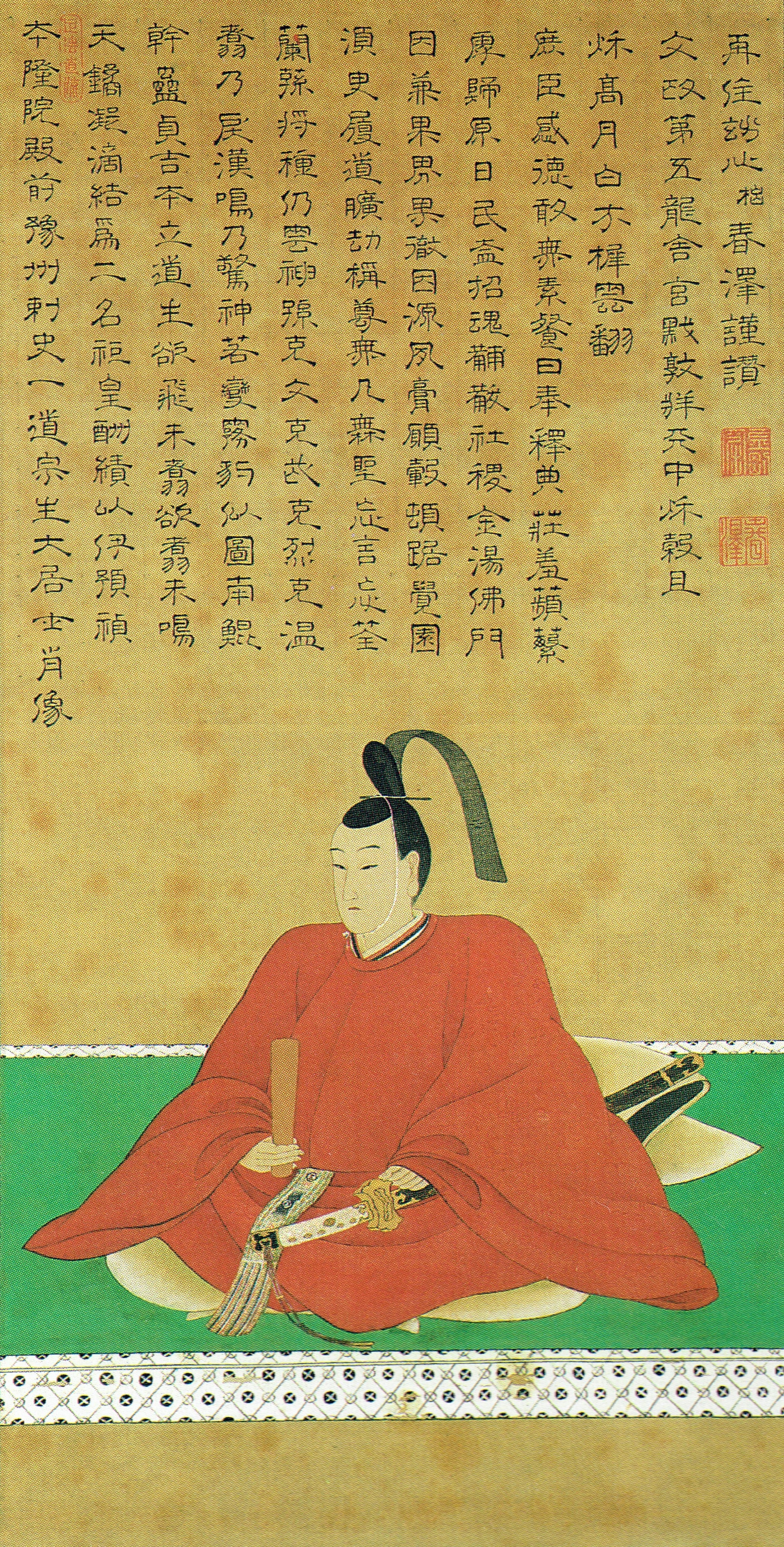 Portrait of Inaba Takamichi, owned by Gekkei-ji Temple in Usuki, Oita, Japan